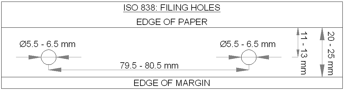 Taken by my at various different times. A diagram illustrating the ISO 838 system for filing holes.